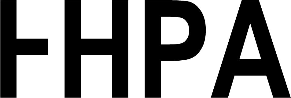 Early form of spelling of „Hera“ in Greek to demonstrate the replacement for the reutilization of Eta for the Sound [Ɛː] used as was before introduction of Spiritus Asper